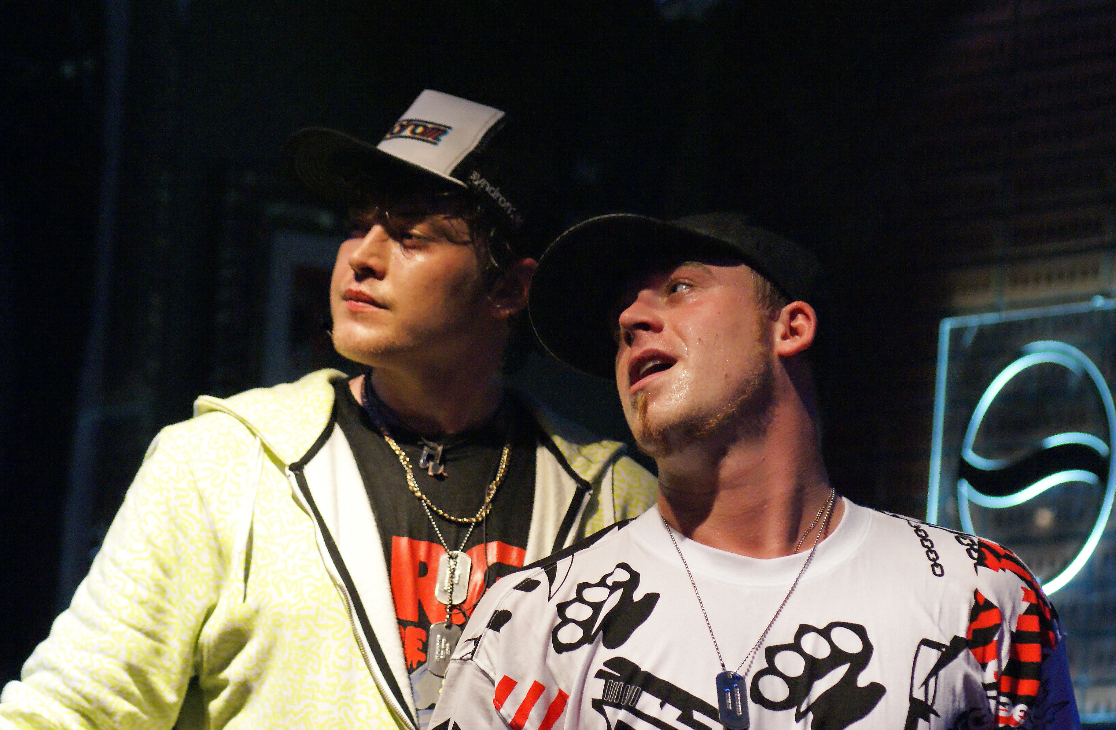 Wozzo & Tomson (Afromental)